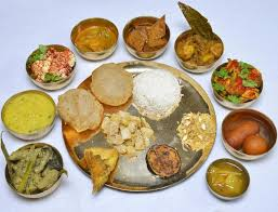 The Bengali spicy food ,with rice,fish some fried items ,this is delicious,request to every body of wold in hole life once test the Bengali thali